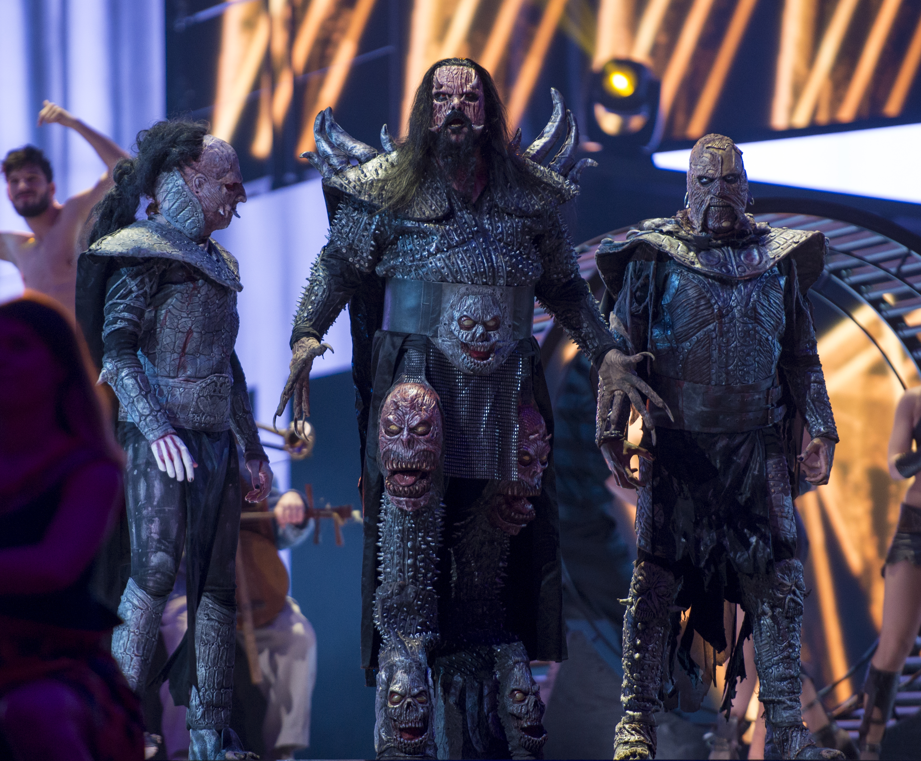 The interval act of the final, during the first dress rehearsal of the Eurovision Song Contest 2016 in Stockholm. (Help translate this text)